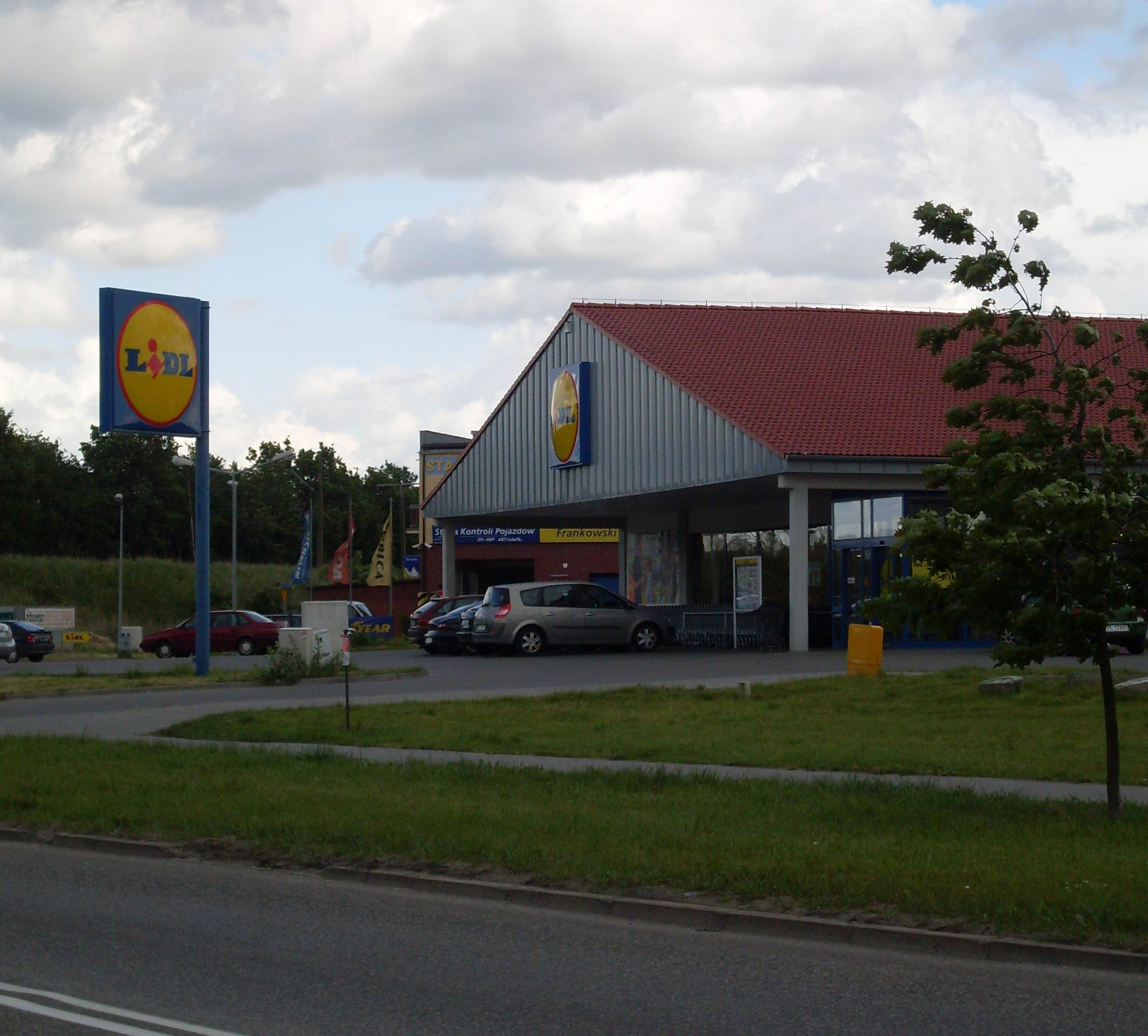 Lidl on Piłsudskiego Street in Police, Poland